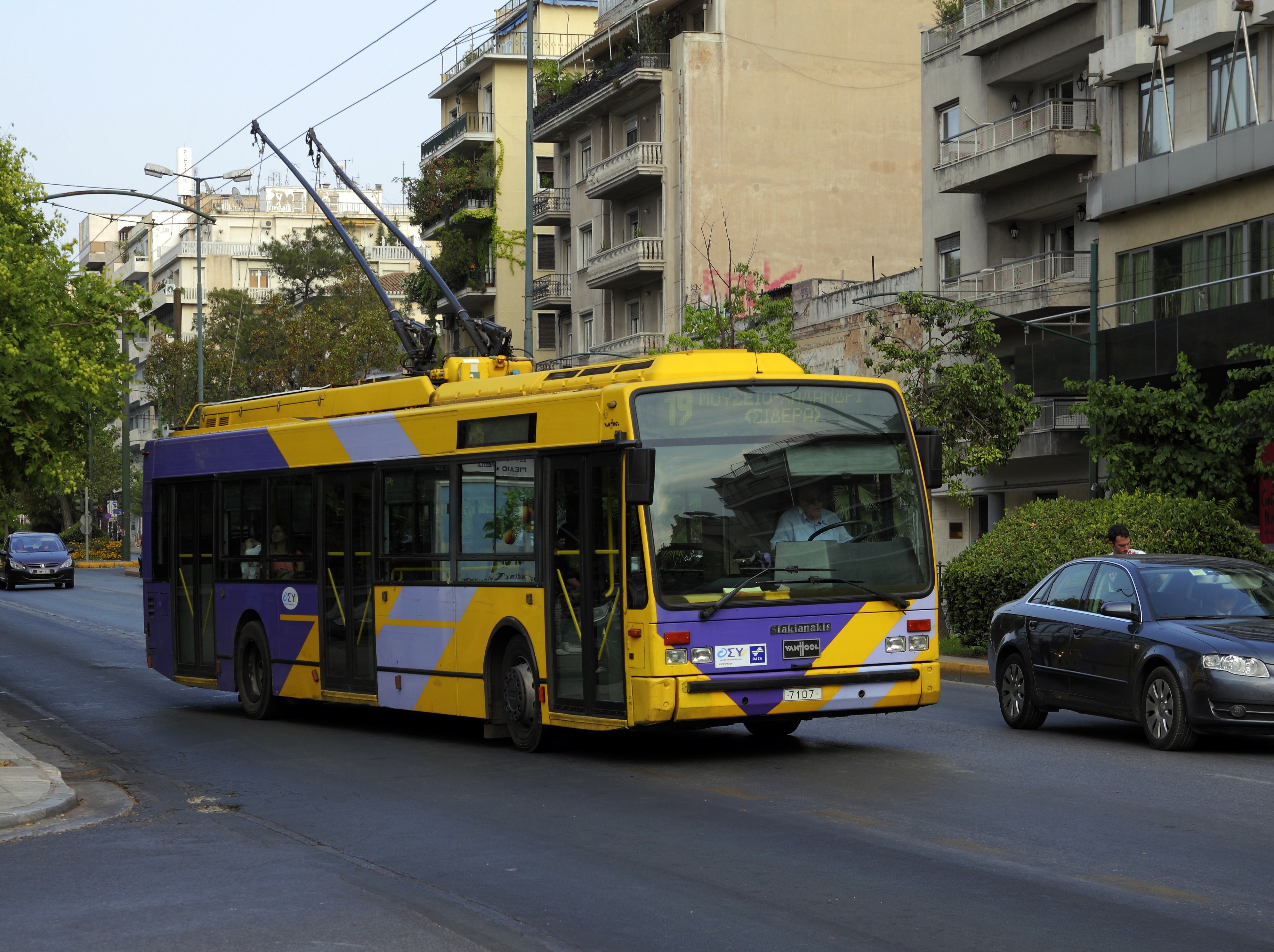 Trolleybus at Alexandras Avenue in Athens (Attica, Greece). No. 7107 is a 2002 Van Hool A300T.